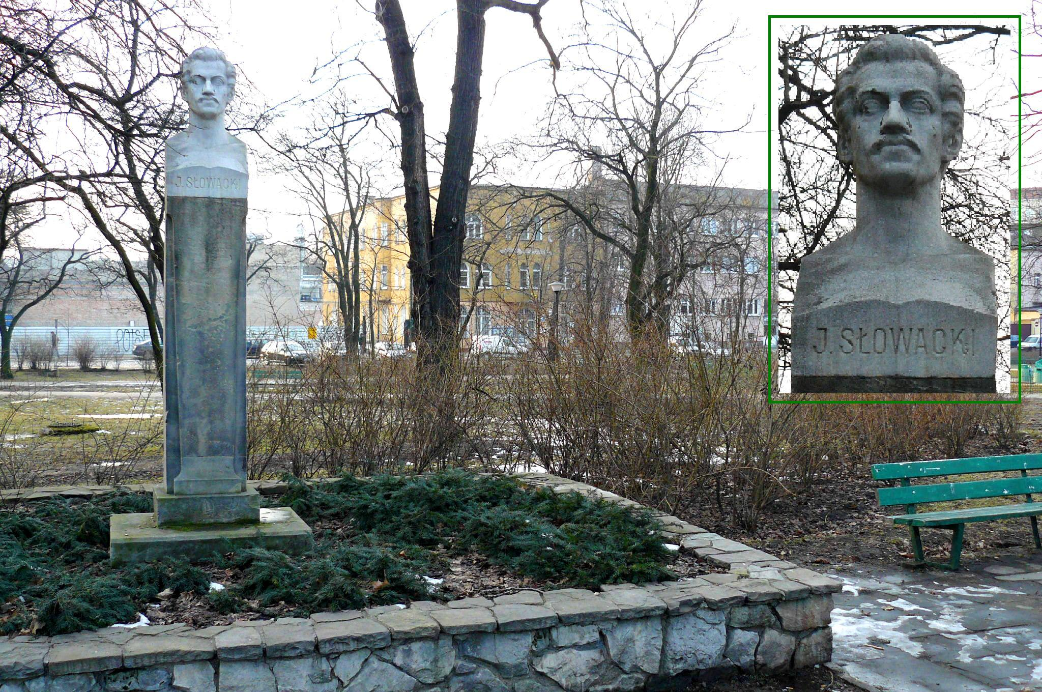 Juliusz Slowacki Monument - Poznan, Marcinkowskiego Park.